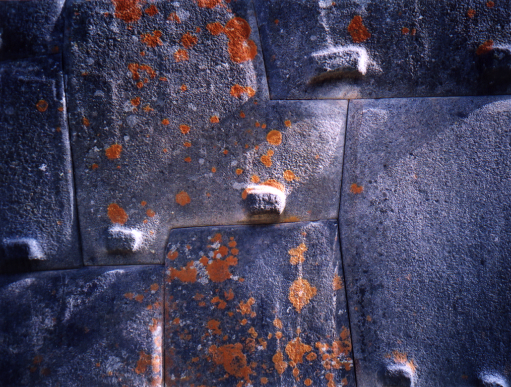 A wall in the Inca fortress of Ollantaytambo in Peru